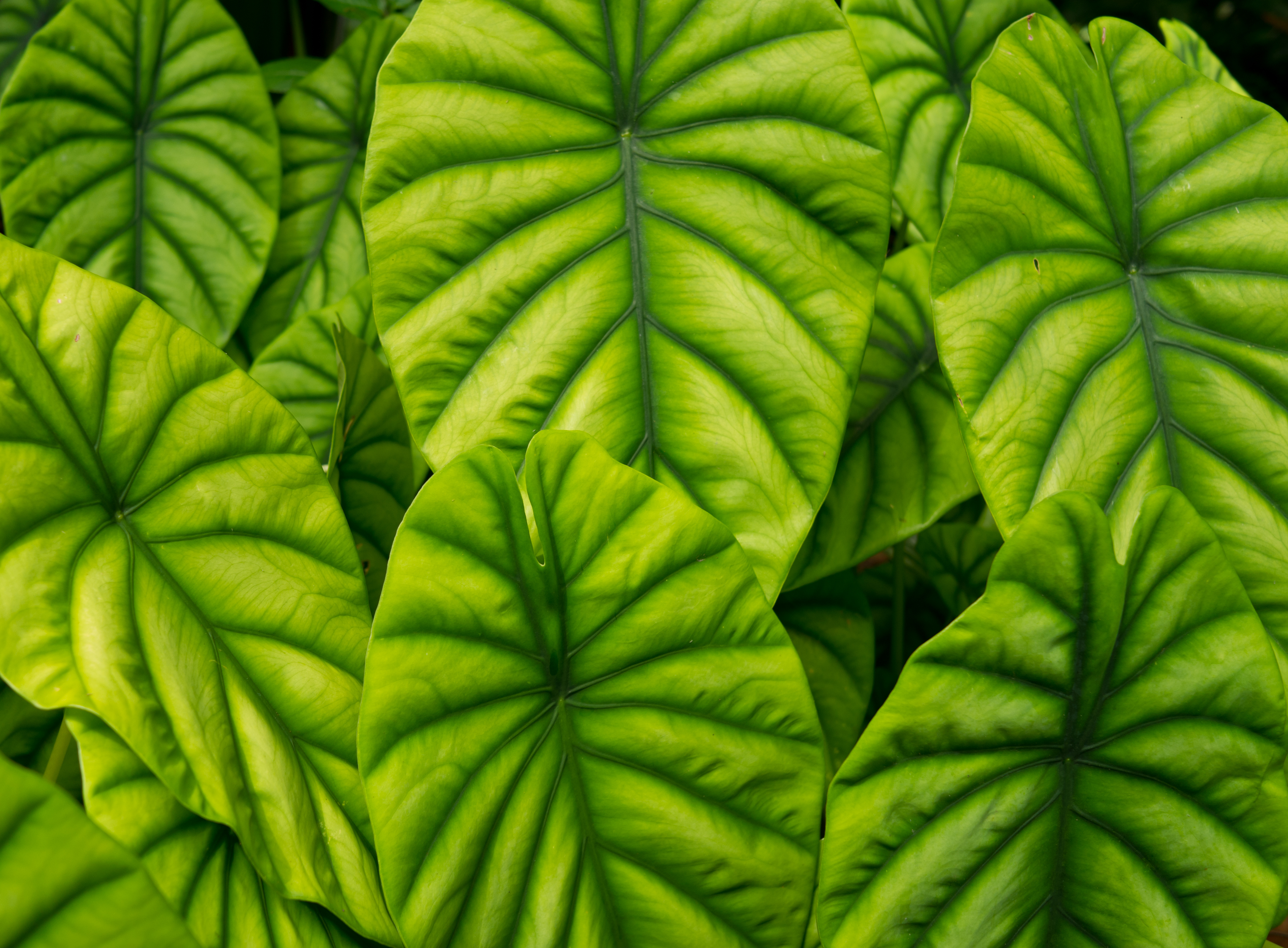 Alocasia cuprea at the Hawaii Tropical Botanical Garden, Big Island, Hawaii.